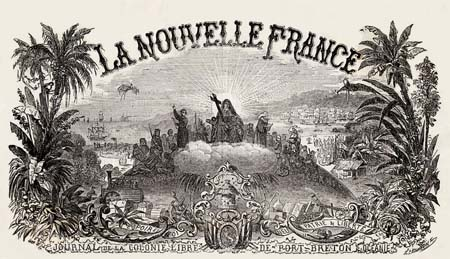 Advertising related to Marquis de Rays' La Nouvelle France